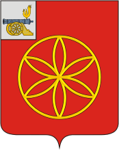 Rudnya rayon (Smolensk oblast), coat of arms